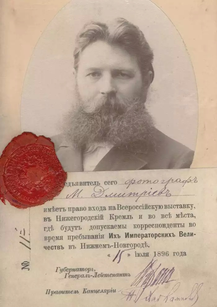 Maxim Dmitriev